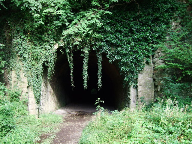 Old railway tunnel where Usk station used to be